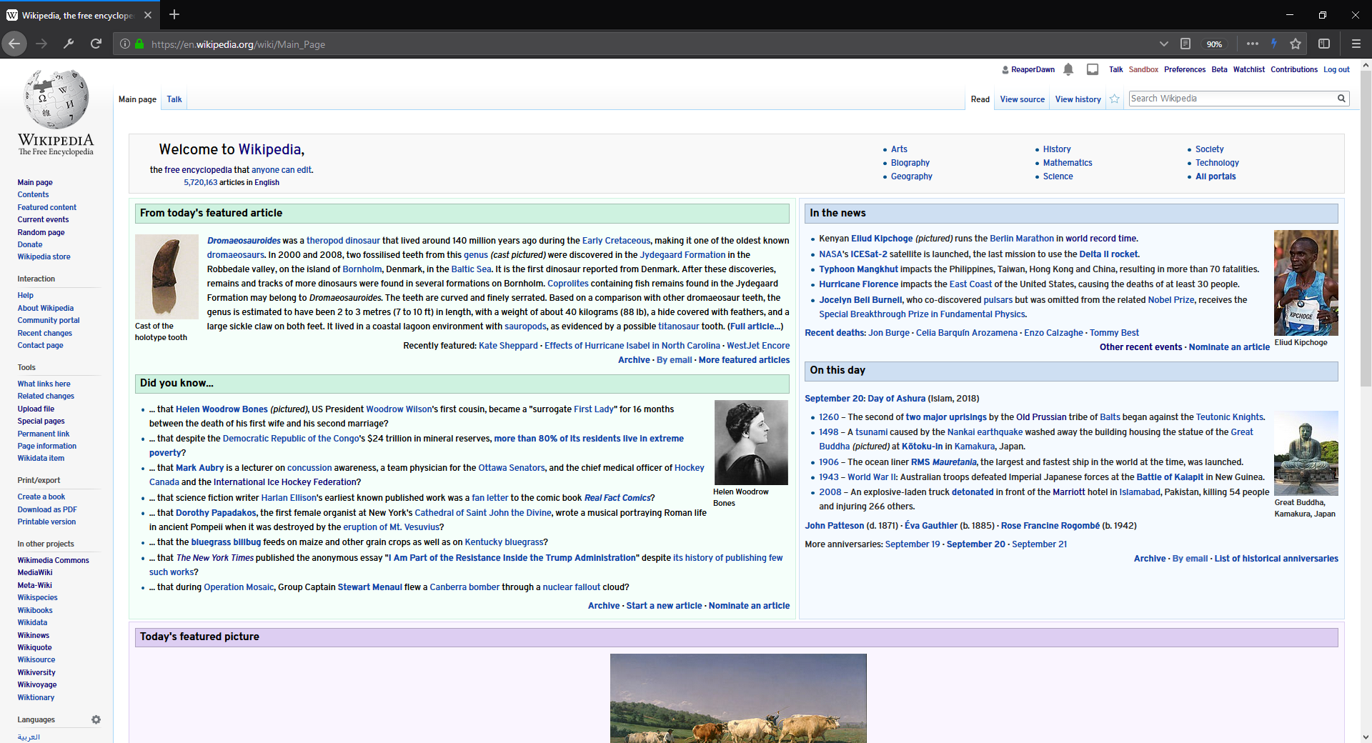 Firefox Developer Edition on Windows 10, version 63.0b7.